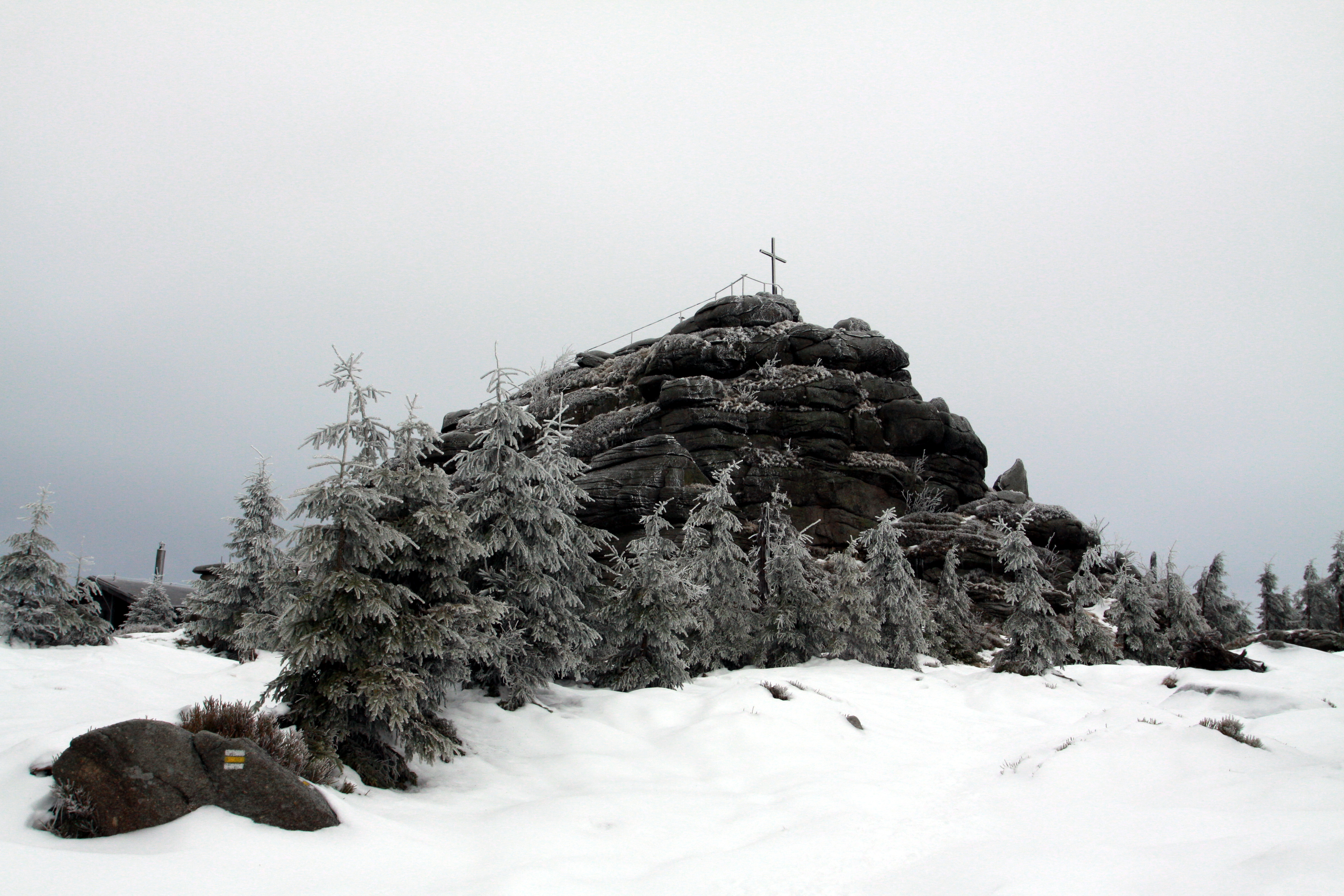 Nature reserve Prales Jizery in winter 2013/2014, Liberec District, Czech Republic - Google Maps - Google Earth